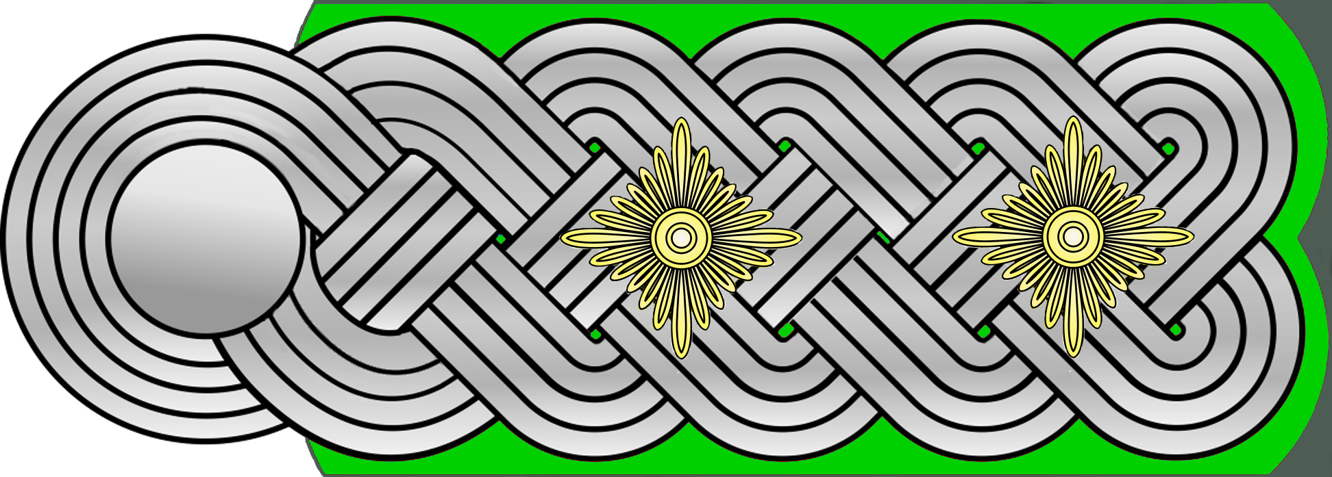 Rang insignia of the German Wehrmacht, here shoulder strap "Colonel" Heer (OF-5) to 1945. The corps colour “Meadow green” was used by the Panzergrenadier troops.